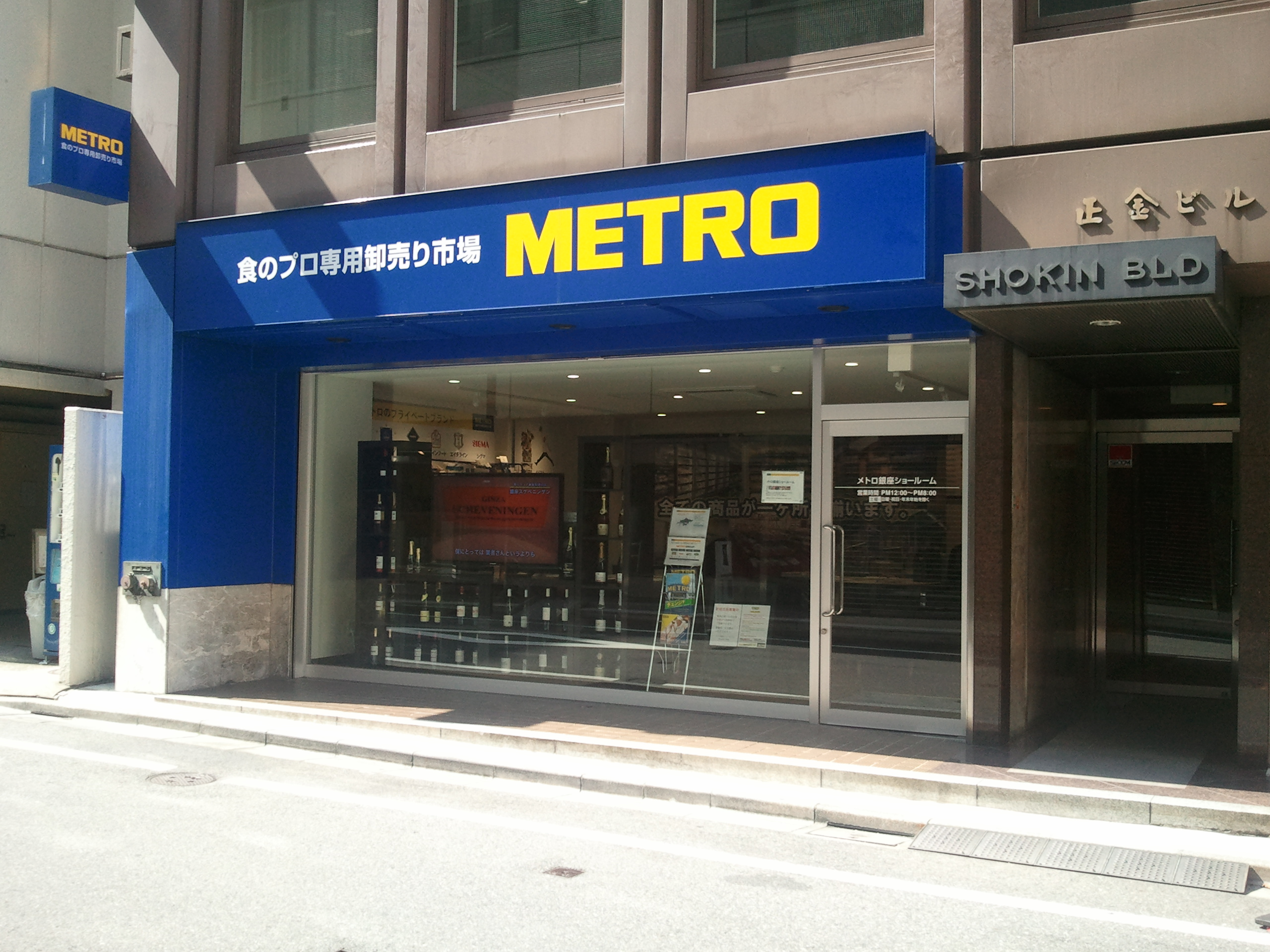 Metro Ginza Showroom